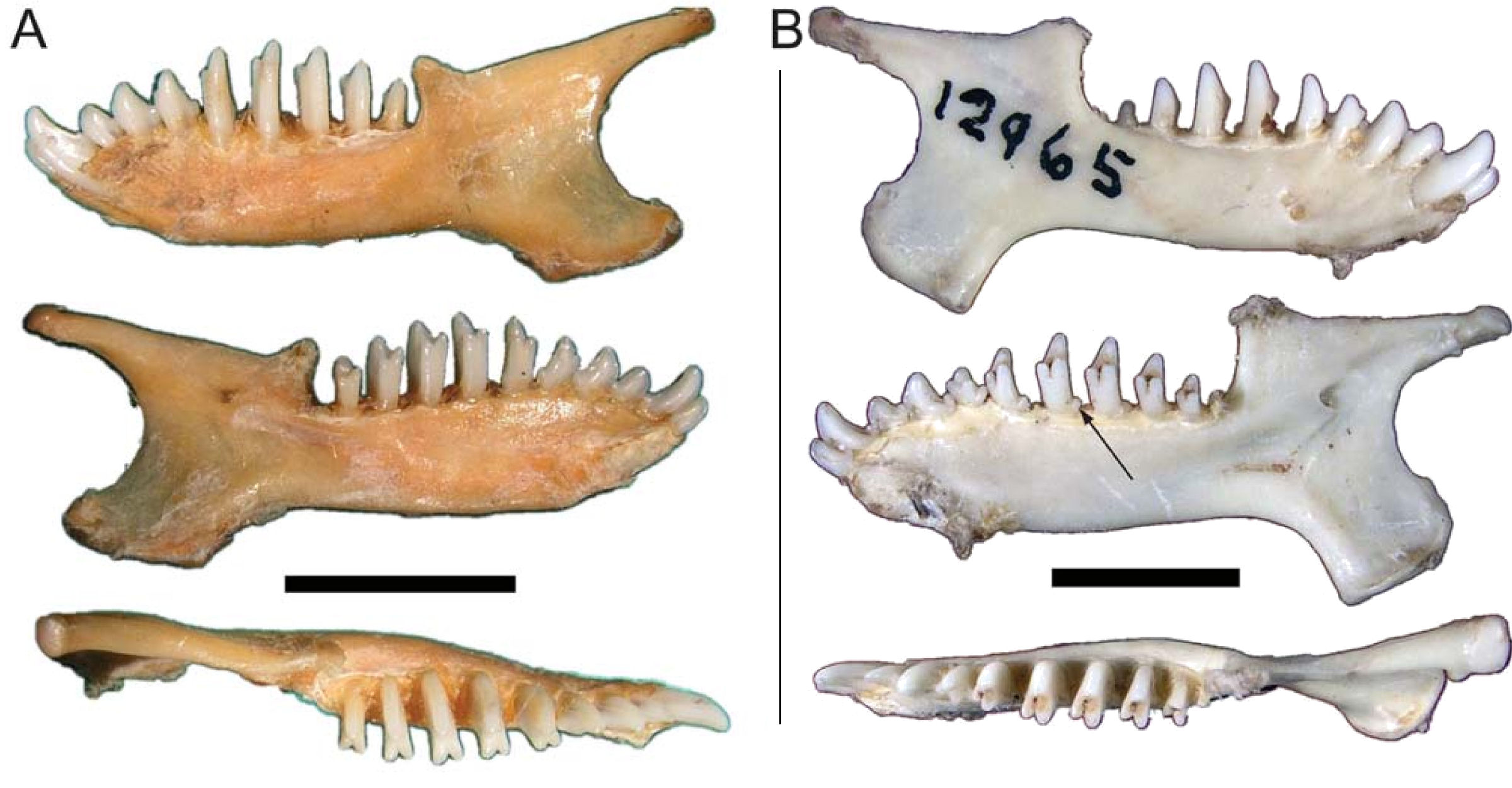 Mandibles of Huetia leucorhinus (A) and Carpitalpa arendsi (B). Arrows in B indicate talonid on p4 in Carpitalpa, present throughout the lower toothrow and absent in premolars and molars of Huetia. Scale bars indicate 5 mm